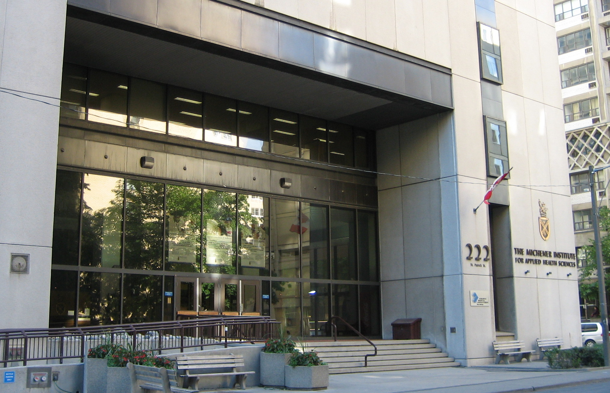 This is my own work. It is a picture of The Michener Institute in Toronto, Ontario, Canada. I hereby licence it under the GFDL.